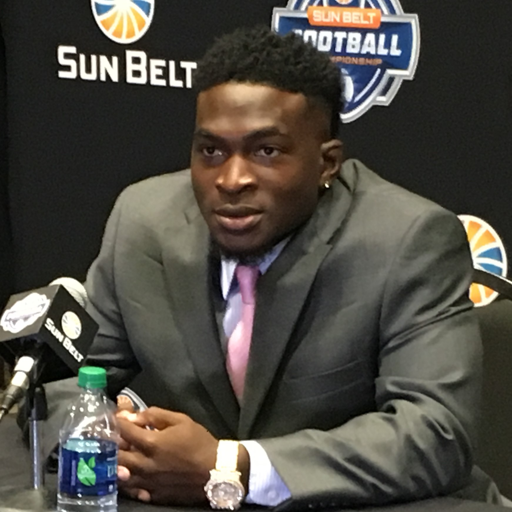 Marcus Green, multi-position player for the ULM Warhawks football team, at the 2018 Sun Belt Conference media days in New Orleans.